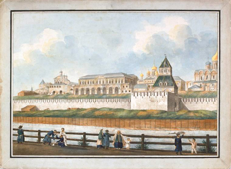 One of five colored etchings of Moscow Kremlin by Francesco Camporesi (1747-1831), published in 1790-s.